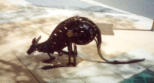 City Roo Sculpture in George Street, Brisbane, Queensland, Australia ( this photograph was taken by Figaro )